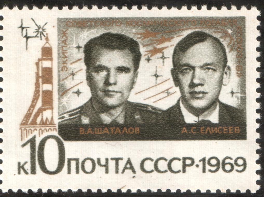 USSR stampː Vladimir Shatalov and Aleksei Yeliseyev (Soyuz 8). Seriesː Triple Space Flights the Space Ships Soyuz 6 (11-16.10), Soyuz 7 (12-17.10) and Soyuz 8 (13-18.10)